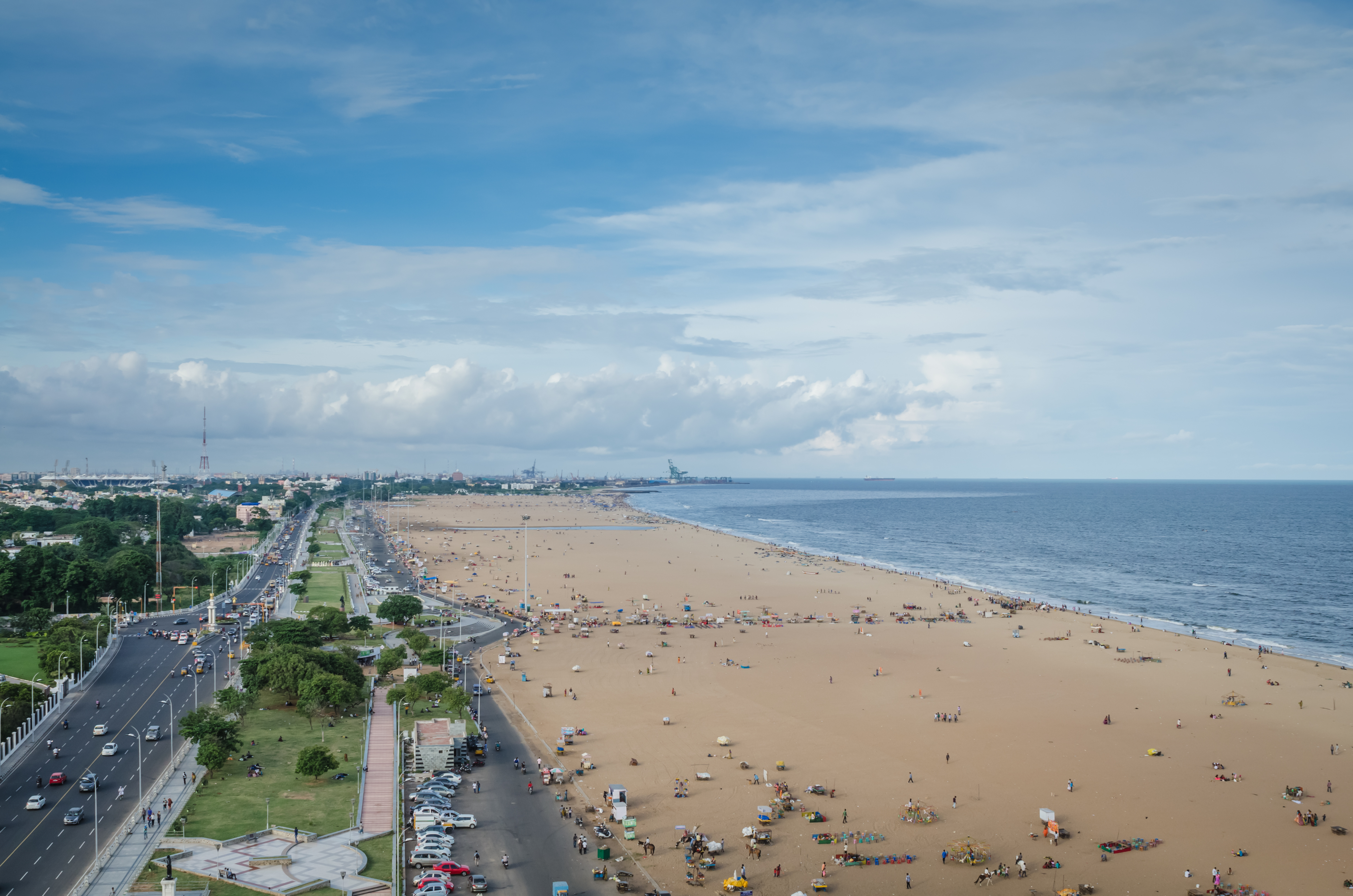 View from the Lighthouse